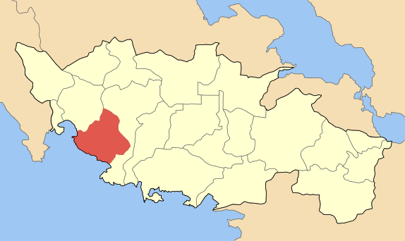 Locator map of Kyriakiou community (Κοινότητα Κυριακίου) at Voiotias perfecture, Greece.